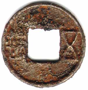 WU ZHU FROM AD 25 H 10 . 1 Wu Zhu Gongsun Shu, Sichuan Rebel, Iron coin = 2 copper coins. Rim above hole. 25.2mm, 4.180g FD509, S-nl, HG189/1 crude F H 10 . 1a Wu Zhu Gongsun Shu, Sichuan Rebel, Iron coin = 2 copper coins. 25.2mm, 3.977g FD-nl, S-nl, HG-nl crude F H 10 . 25 Wu Zhu Western Wei, straight lines in Wu and right inner rim distinguish this issue. S253 Hoard EF, can supply either as-found or cleaned & retoned, as shown. ($3 Each per 5+) H 10 . 29 Wu Zhu Western Han Dynasty, Emp. Wu Di Well-made small pieces which are actually burial money, according to Roger Doo. 12mm FD597, S208/209/210, HG-nl EF, green; or EF brown with raised spot (deliberate?) & scratch below hole H 10 . 32 Wu Zhu Eastern Han, Dot above hole, note Zhu is slightly larger than the hole, distinguishing from W. Han issues. S260 Hoard, probably as-made, but look Fine. Cleaned. Samples shown. ($4 each per 5+) H 10 . 33 Wu Zhu Four horns. Schjoth attributes to Emp. Ling, 184-85 AD; Hua to W. Han. 25.3mm, 3.764g FD511, S178a, HG177/1 EF.